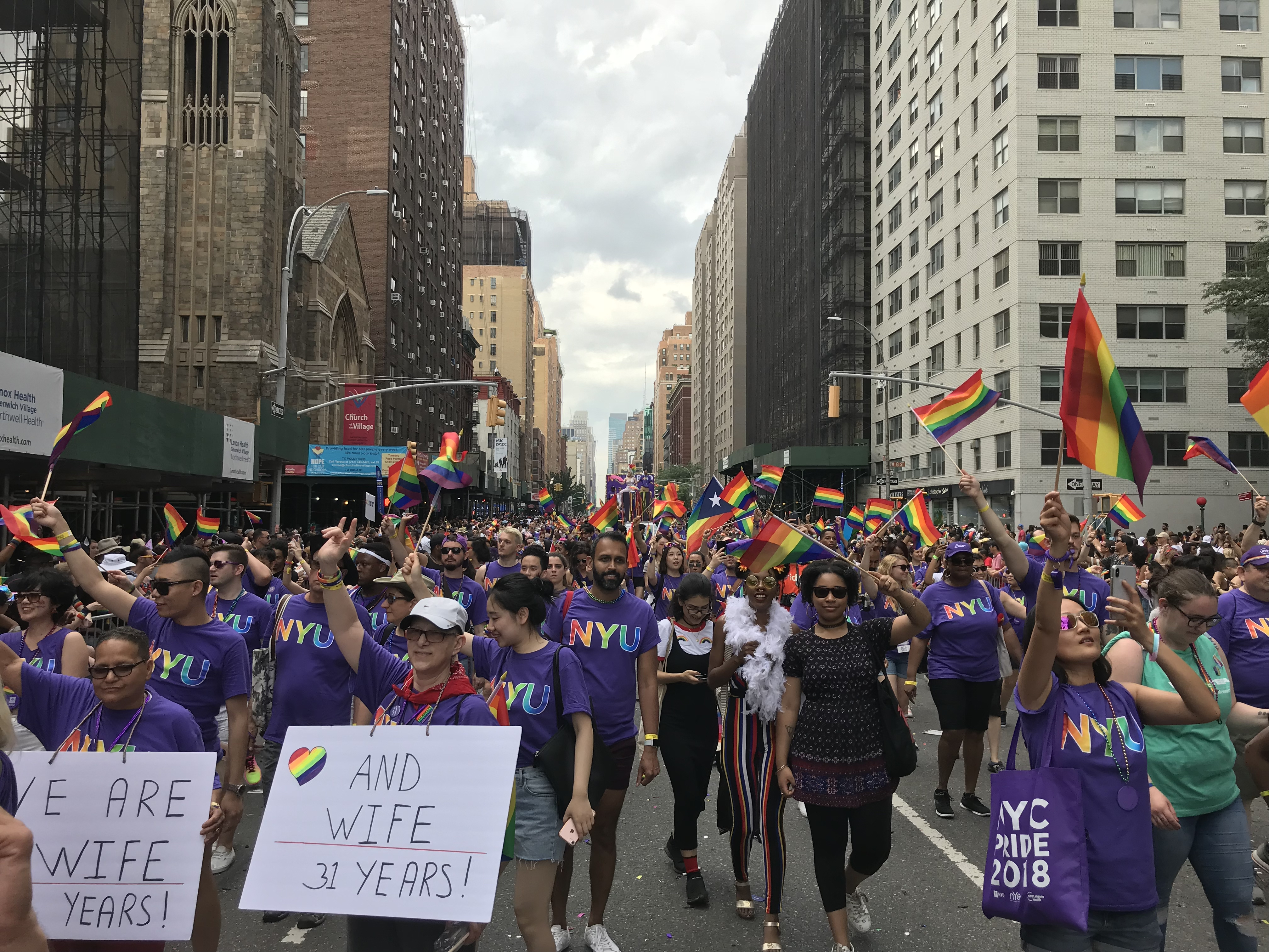 NYC Pride Parade 2018 with New York University group.Locality: New York City Pride Parade 2018, Manhattan and Greenwich Village.Theme: LGBTQ Pride is inclusive in New York City.